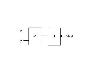 Basic digital comparator